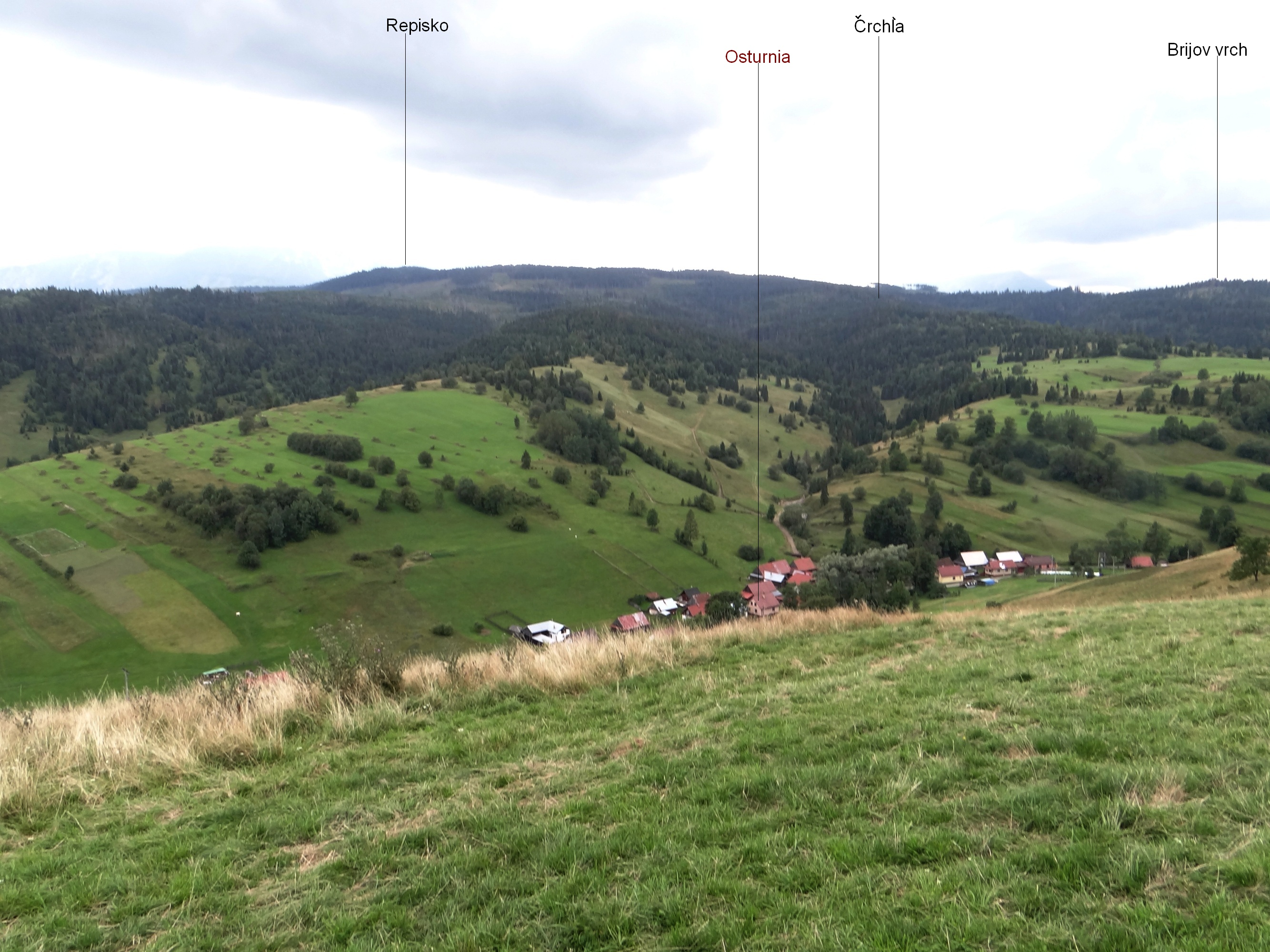 view from Osturnia